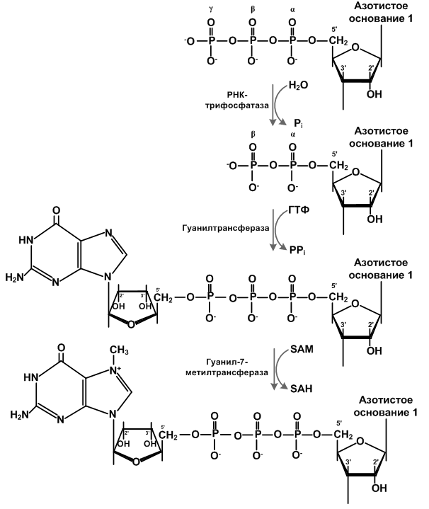 First steps of mRNA capping process